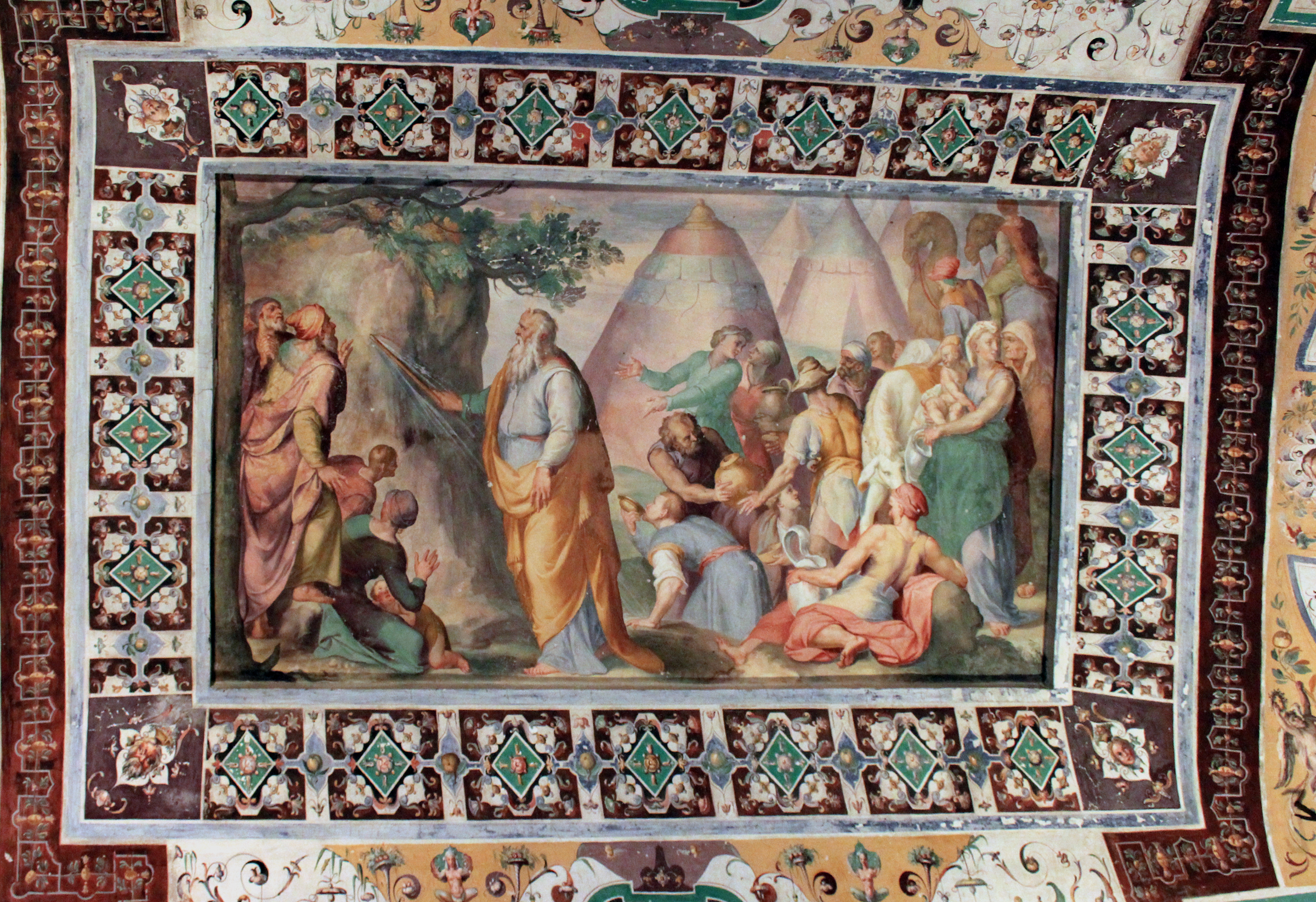 Interior of Villa d'Este, town Tivoli, Italy